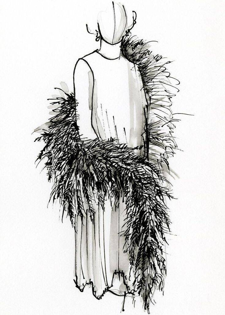 The description of the concept in this drawing is: Very long, elliptical neckpieces made of feathers, fur, or similar fluffy materials, especially popular in the 1890s. (AAT)